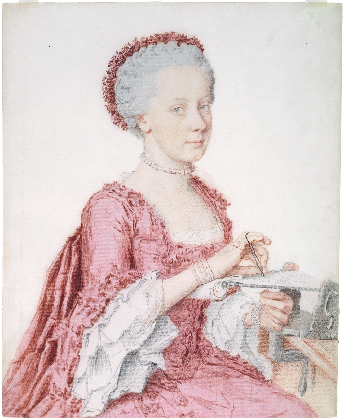 Archduchess Maria Amalia of Austria, Duchess of Parma and Piacenza